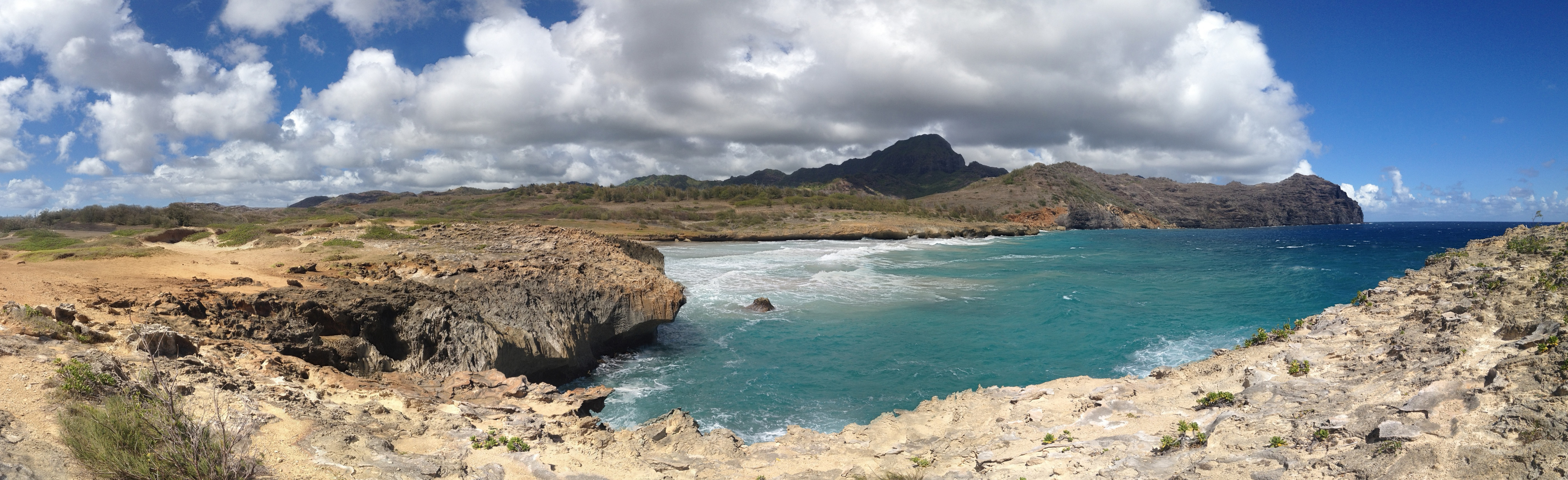 A panoramic view of Haula beach, the most eastern part of Mahaulepu beach on the southern shore of the island of Kauai, Hawaii.